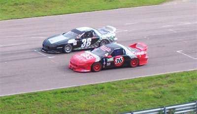 Author: Jimmy Magnusson